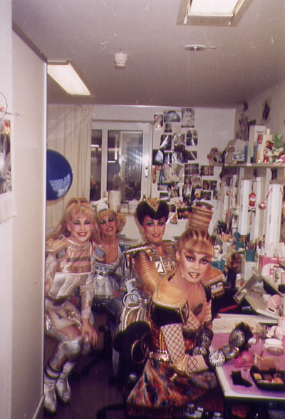 Photograph of 4 Starlight Express actresses in Bochum, Germany. From left to right: Pearl: Maria Jane Hyde, Dinah: Natalie Howard, Buffy: Carol Hoffman, Ashley: Roslyn Howell. The photo was taken with a Nikon TW Zoom